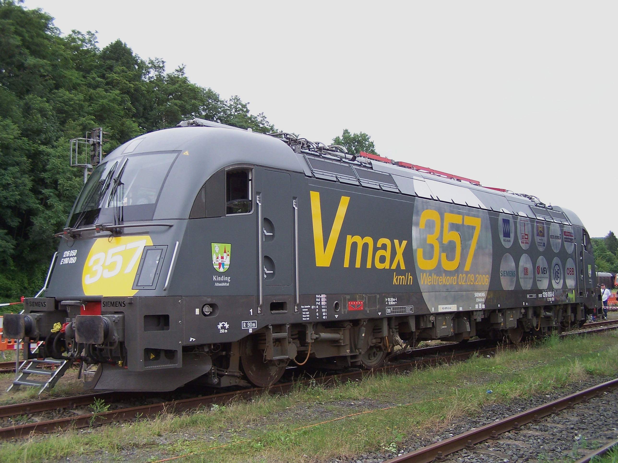 Locomotive Siemens ES64U4 1216 050 in Hersbruck, Germany, June 30th, 2007